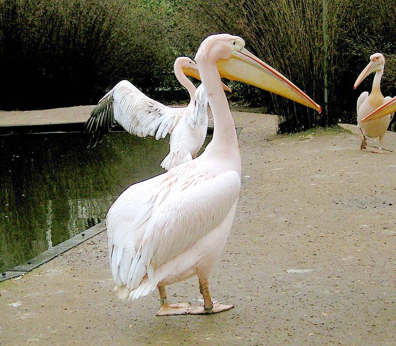 Pelecanus onocrotalus - Burgers Zoo, NL